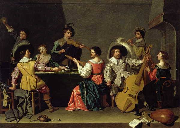 The concert